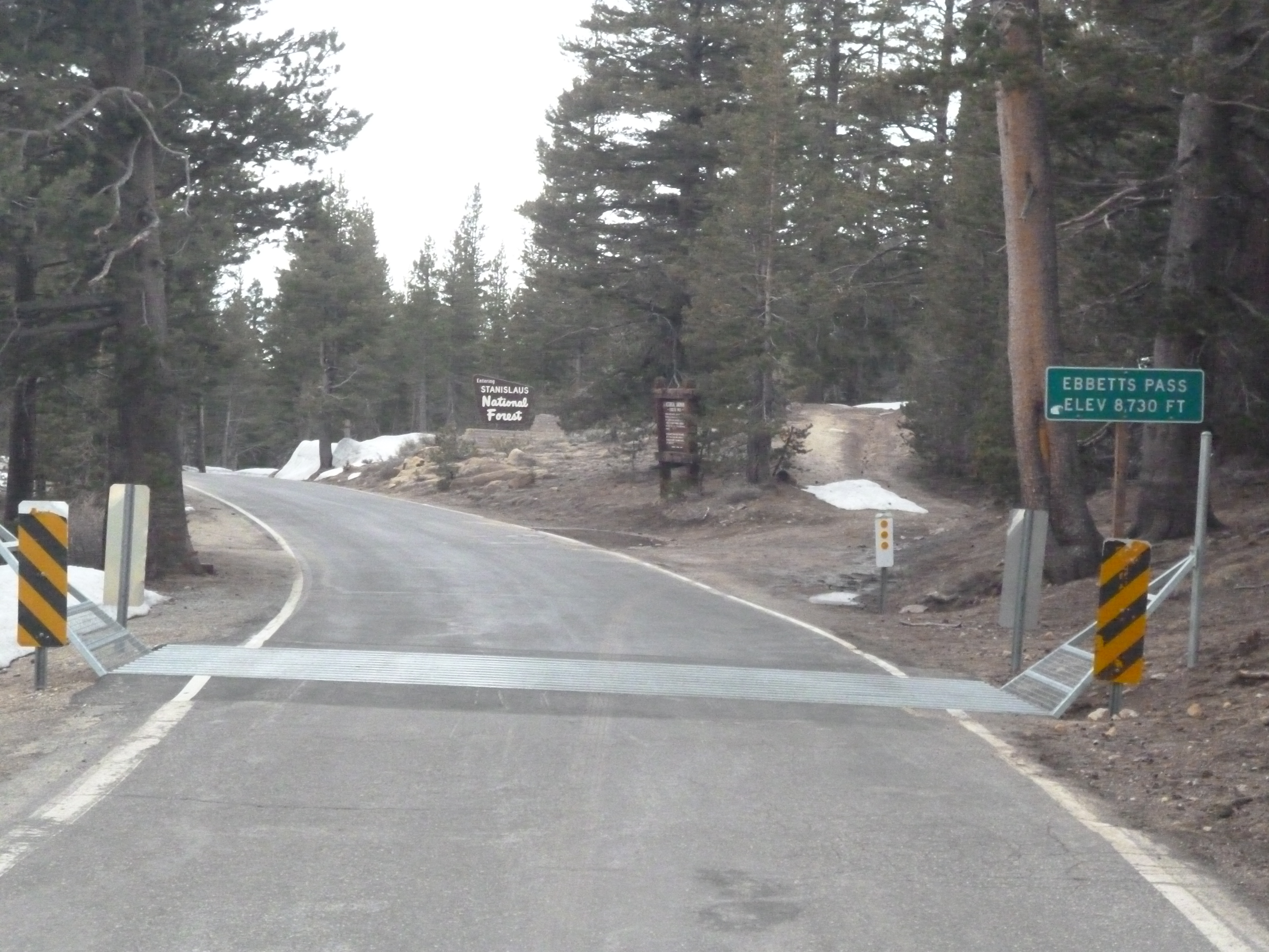 California State Route 4 at Ebbetts Pass.